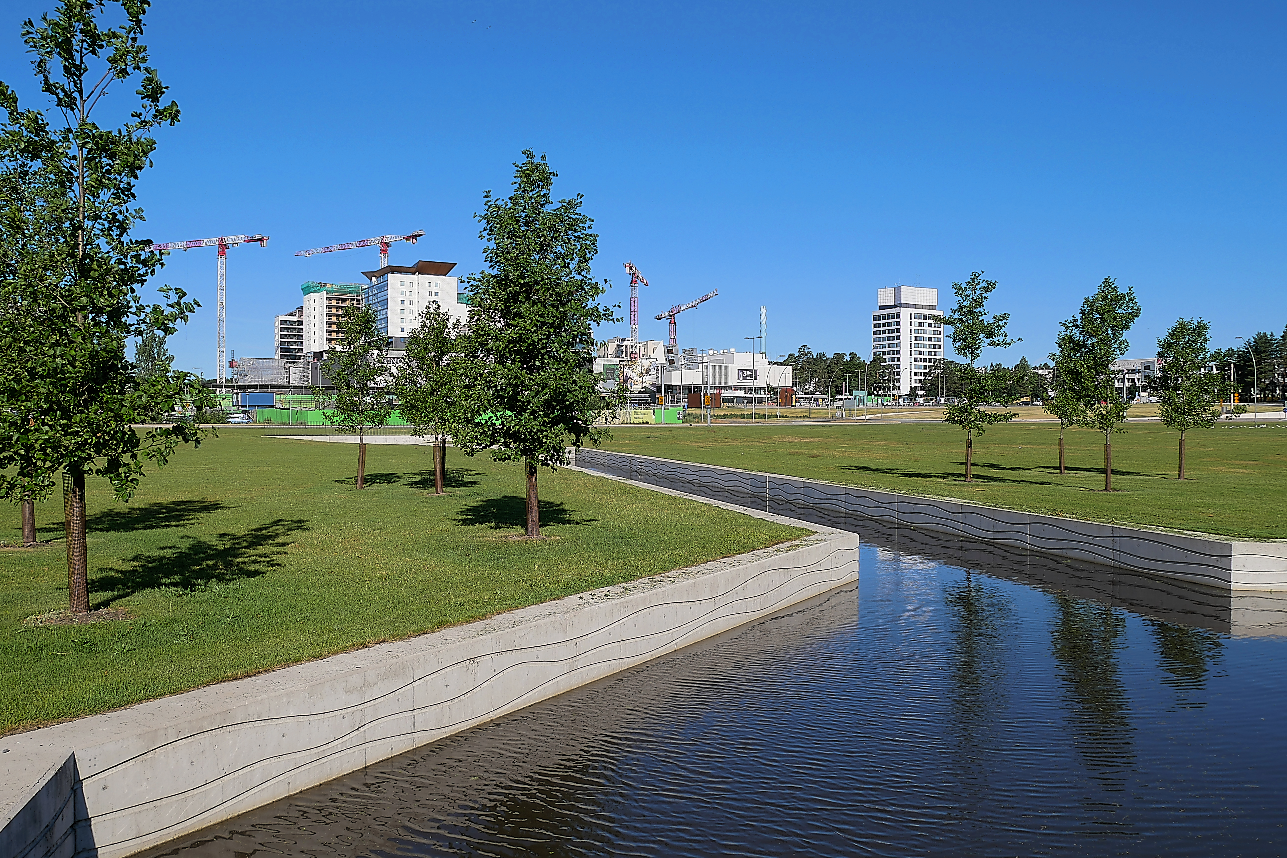 The center of Tapiola and the park east of it on a bright June morning.